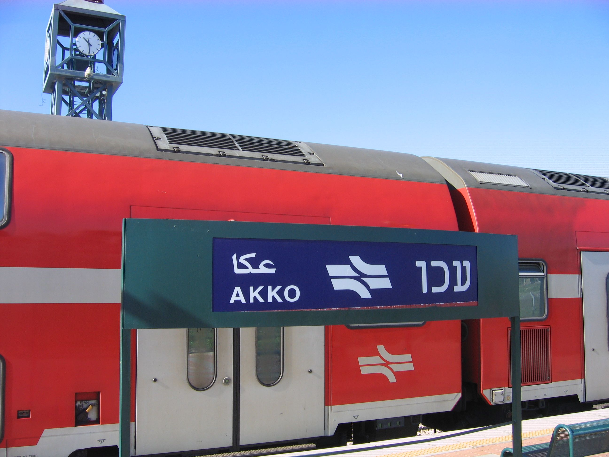 Akko rly station